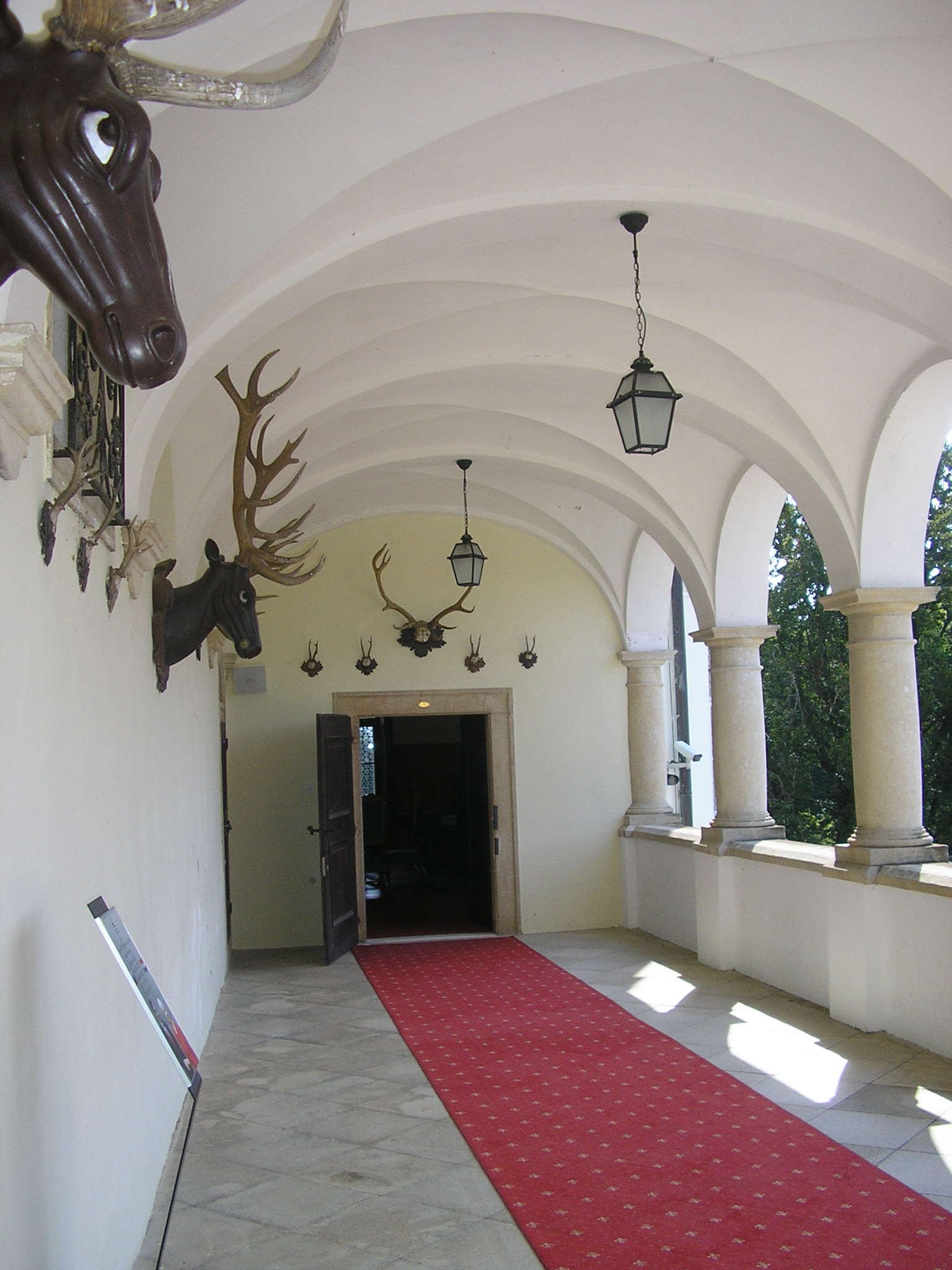 Trakošćan castle